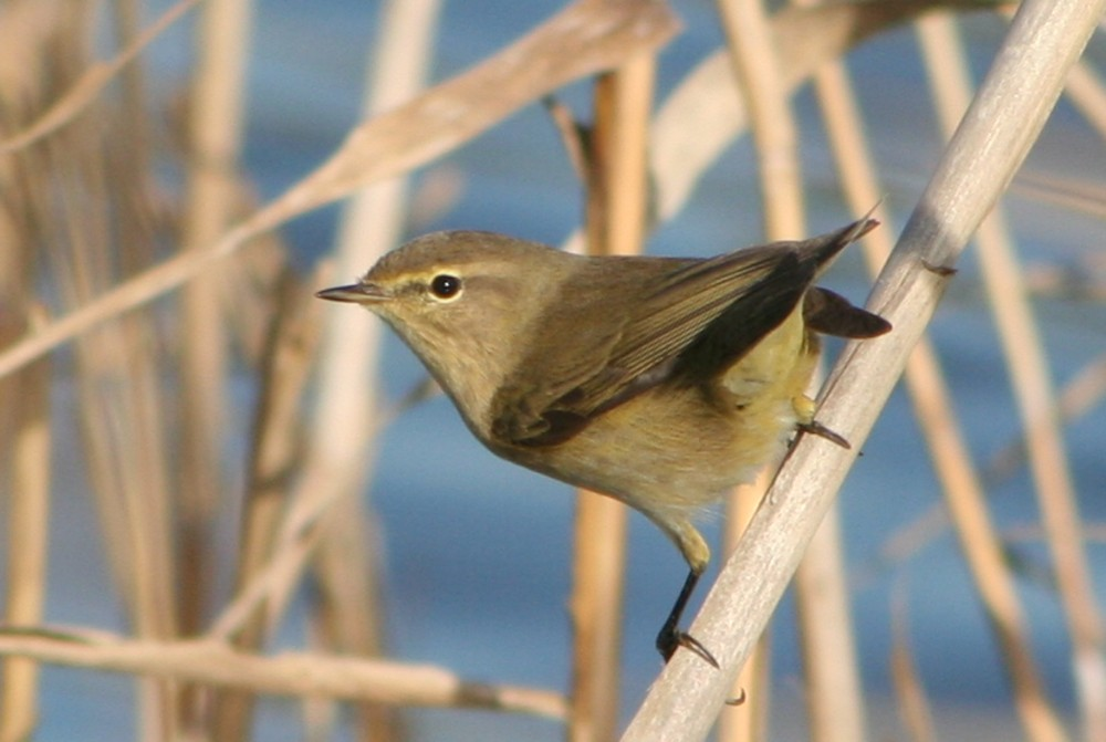 Phylloscopus collybita Regulus ignicapillus